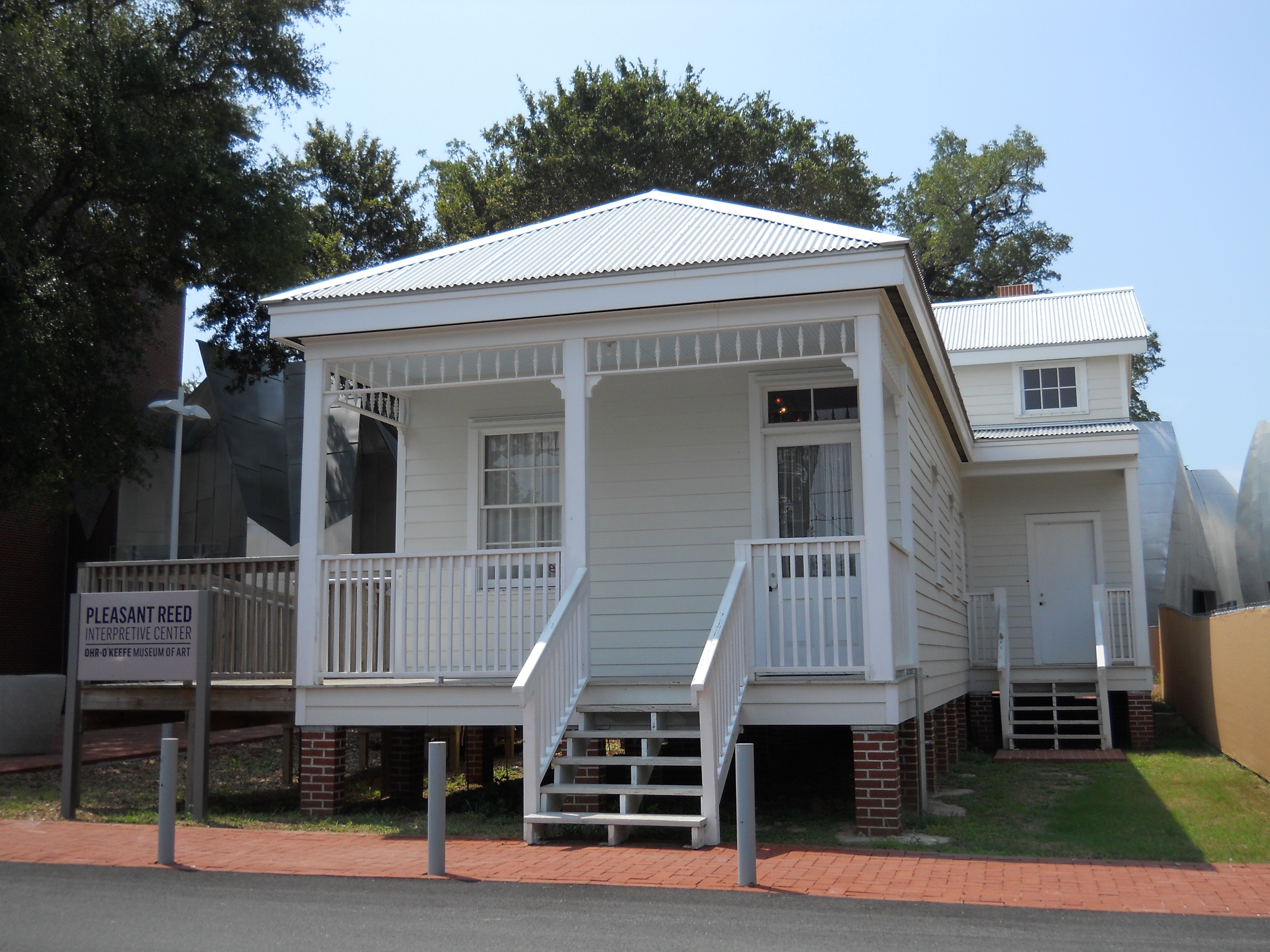 Replica of the Pleasant Reed House, Ohr-O'Keefe Museum of Art, Biloxi, Mississippi, USA. Originally constructed in 1887, the Pleasant Reed House was the first home built in the state of Mississippi by a freed black man. The original House was destroyed by Hurricane Katrina in 2005.